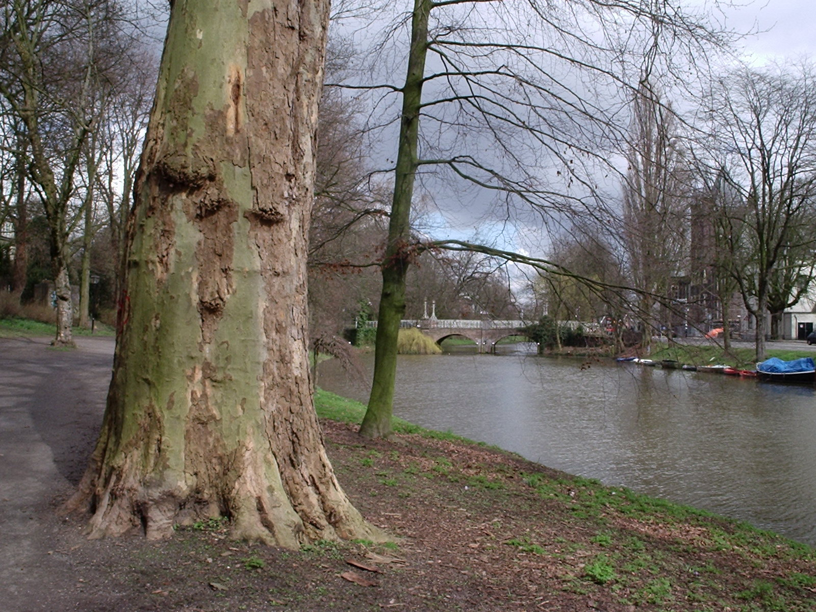 Photo of Zocher park Utrecht, nl